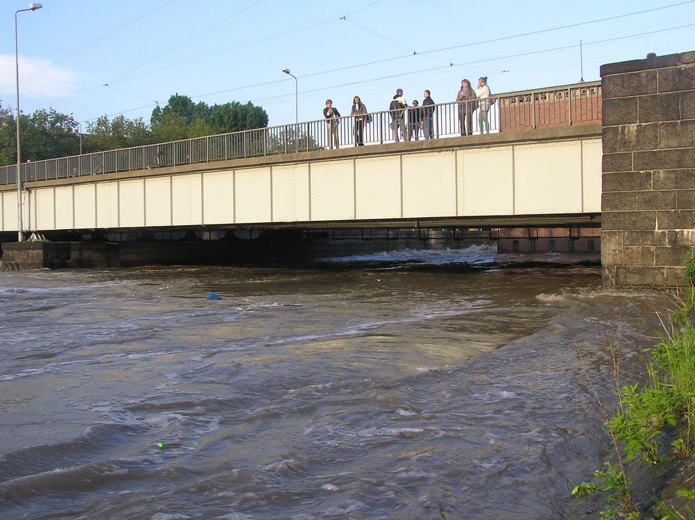 Wrocław, weir of northern hydroelectric plant in Wrocław, Northern Pomorski Bridge